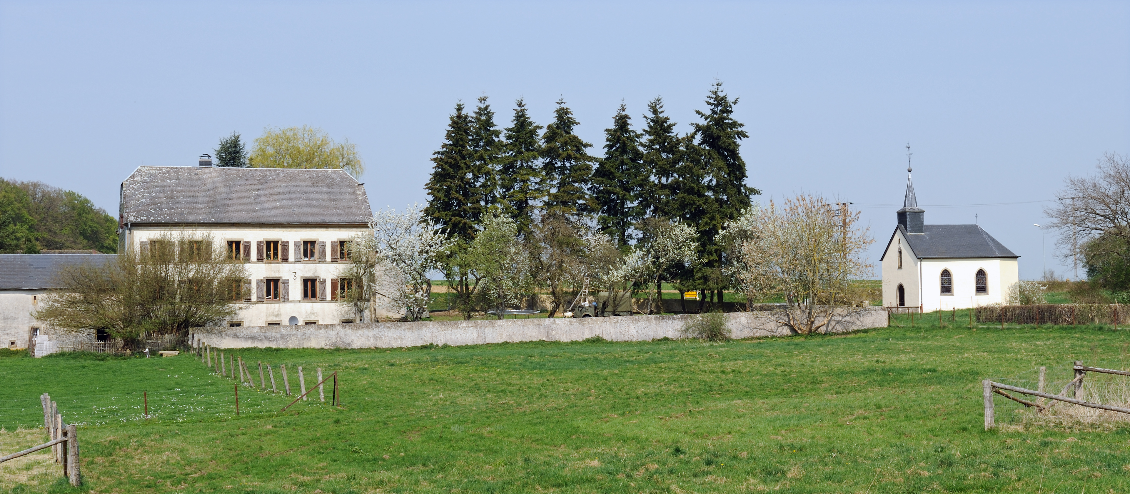 Part of Ehner, a small village in Luxembourg